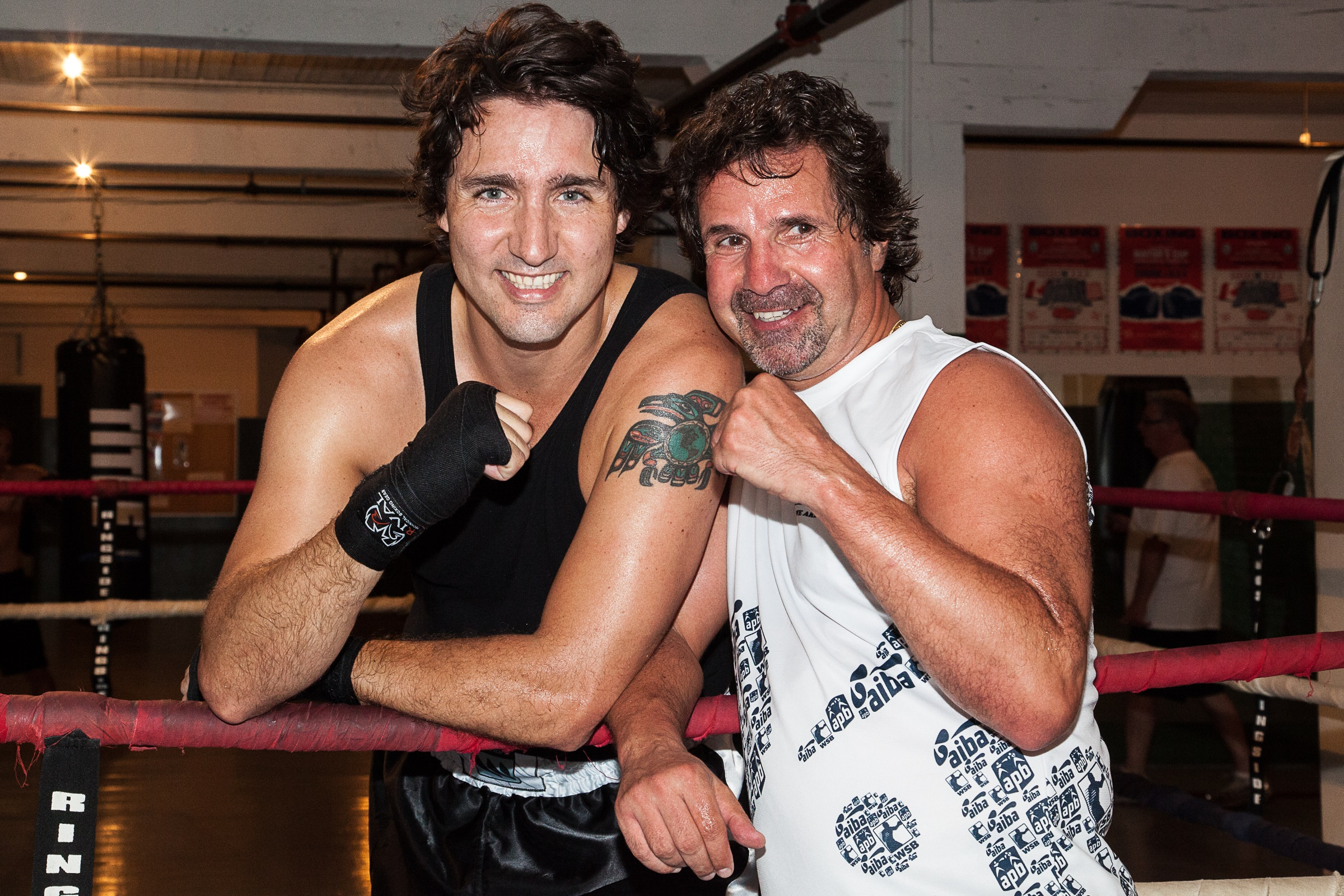 Justin Trudeau at the Regina Boxing Club with former Regina mayor Pat Fiacco.